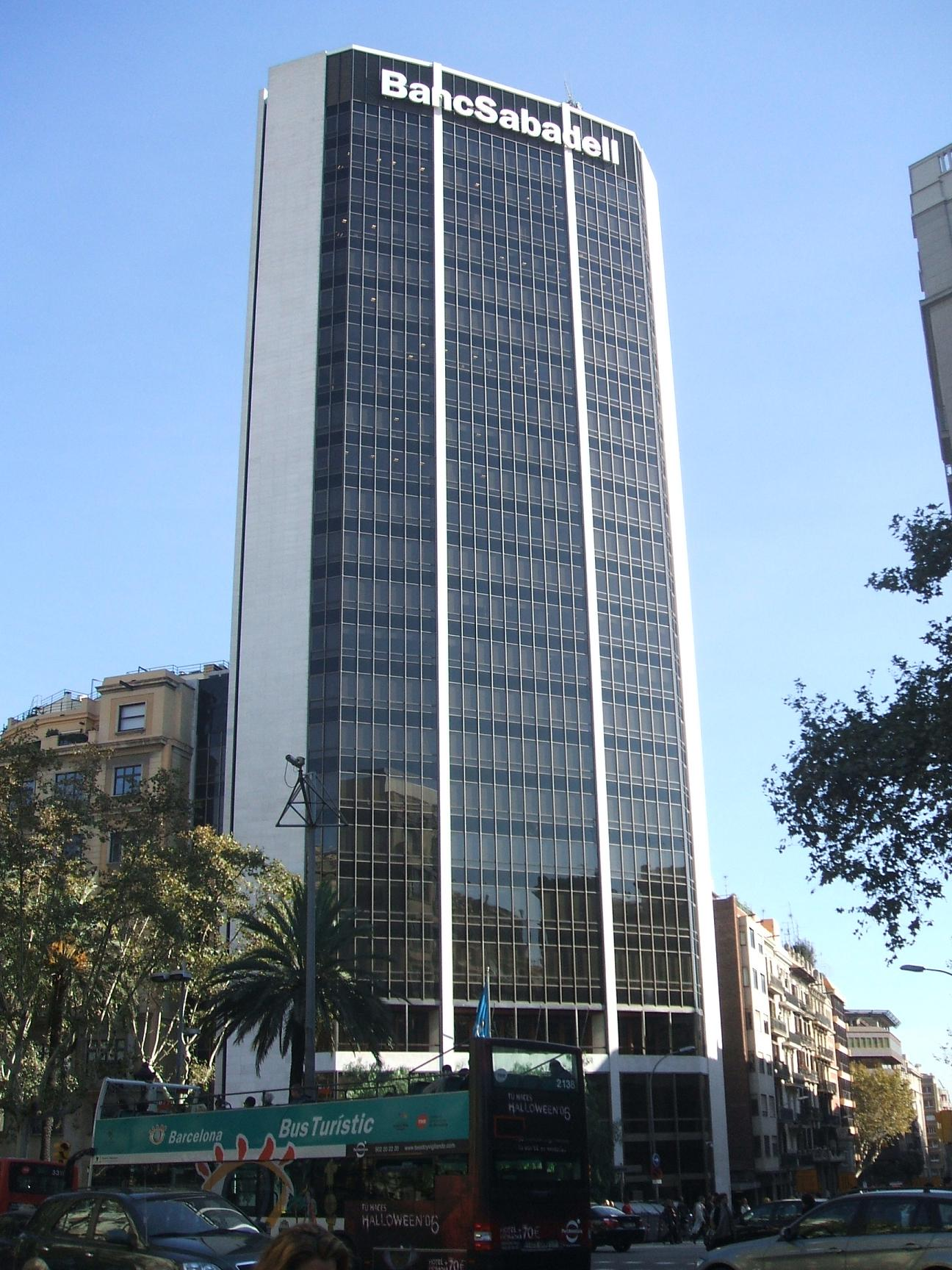 Banco Sabadell main office in Barcelona, Balmes, previously called „antigua torre Atlántico“